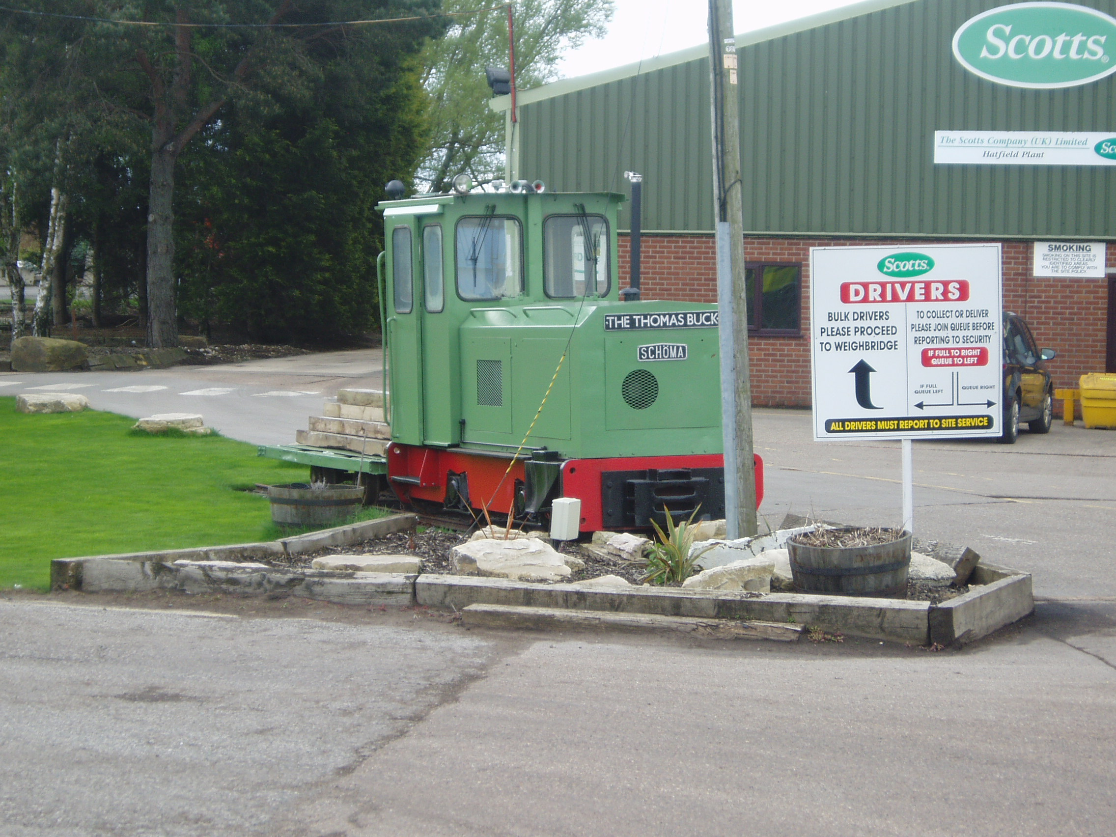 Schoma 5130 of 1990 (Rebuilt by Alan Keef 1998) "The Thomas Buck" on static display at Hatfield Peat Works in May 2012